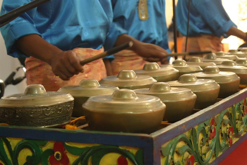 Talempong diatonis